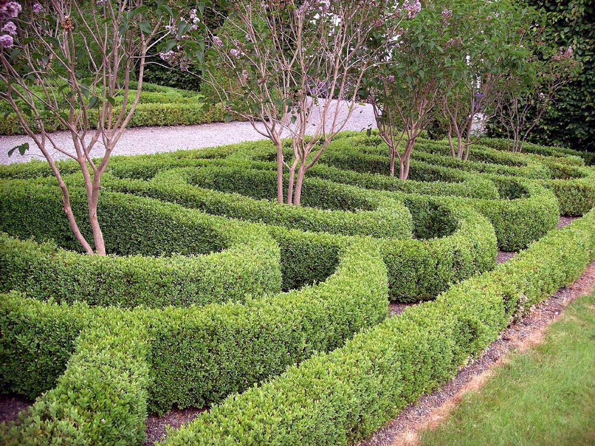 Renaissance Parterre at Birr Castle, Co, Offaly